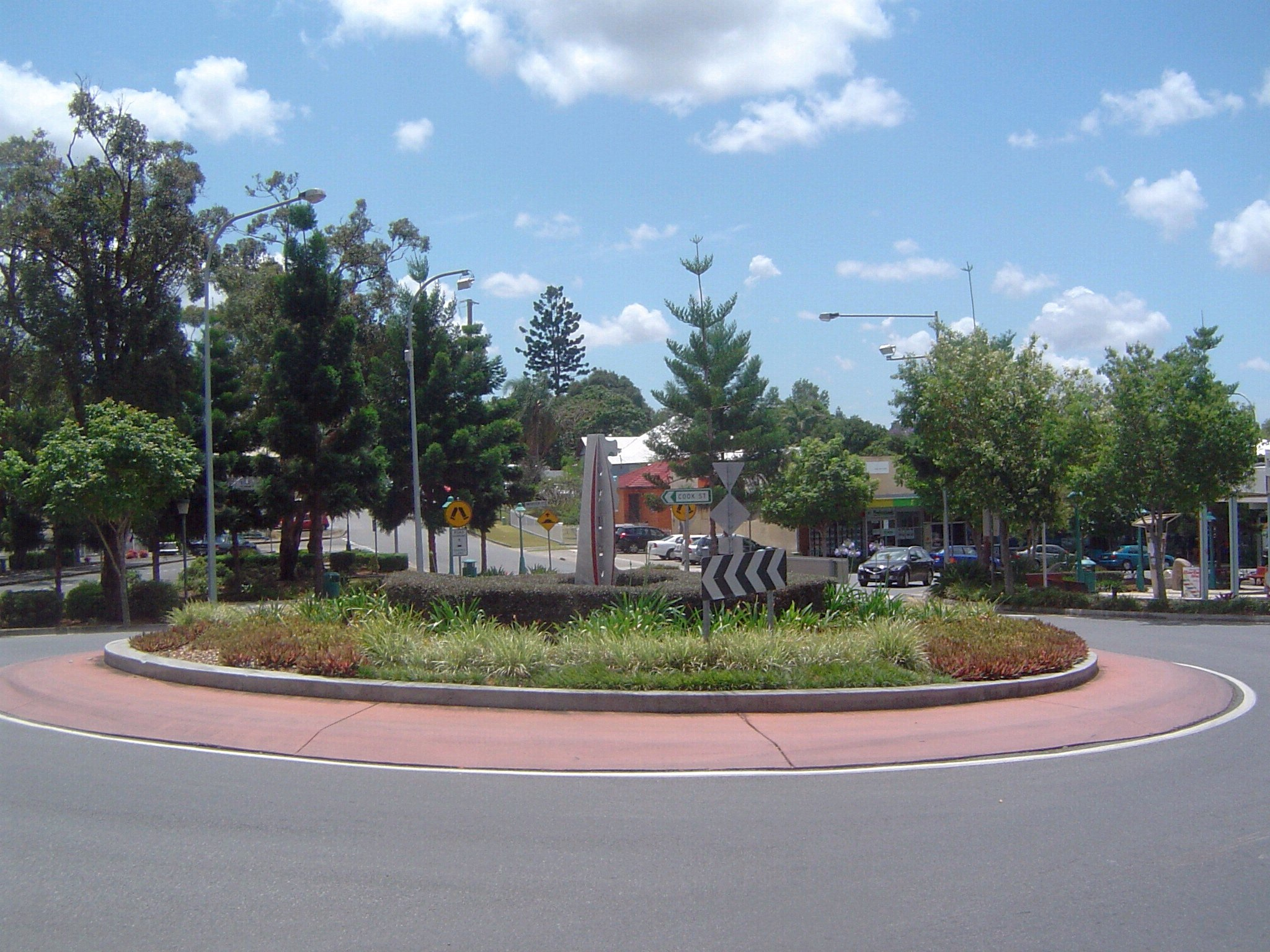 Photograph of Oxley central roundabout in Brisbane, Queensland, Australia showing landscaping done under the Brisbane City Council Suburban Community Improvement Programme in 2003. Sculpture in the middle of the roundabout has the word Oxley embedded in it.